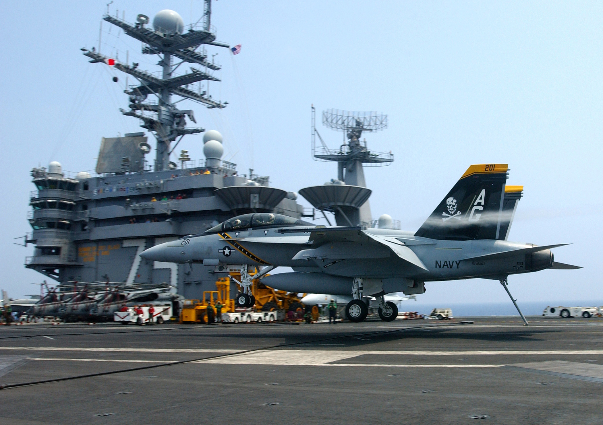 Atlantic Ocean (July 28, 2005) - A F/A-18F Super Hornet assigned to the "Jolly Rogers" of Strike Fighter Squadron One Zero Three (VFA-103) prepares for an arrested landing aboard the Nimitz-class aircraft carrier USS Harry S. Truman (CVN 75). Truman is currently conducting carrier qualifications and sustainment operations off of the East Coast. U.S. Navy photo by Photographer's Mate 3rd Class Kristopher Wilson (RELEASED)